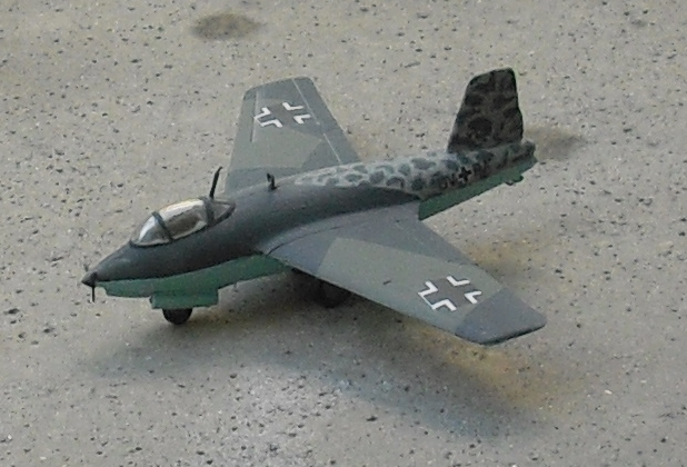 Model photo Messerschmitt Me 263